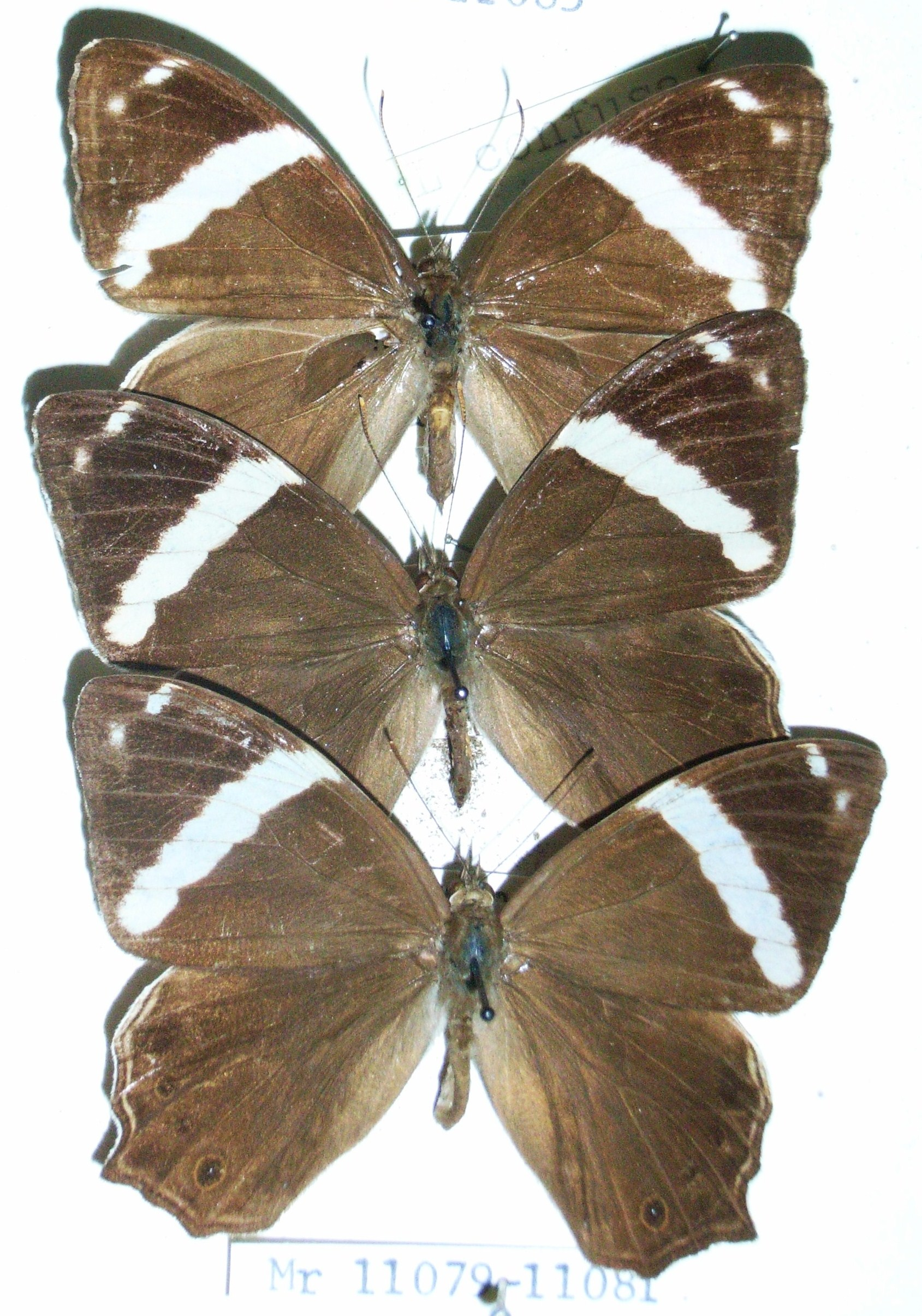 Lethe confusa Malaya